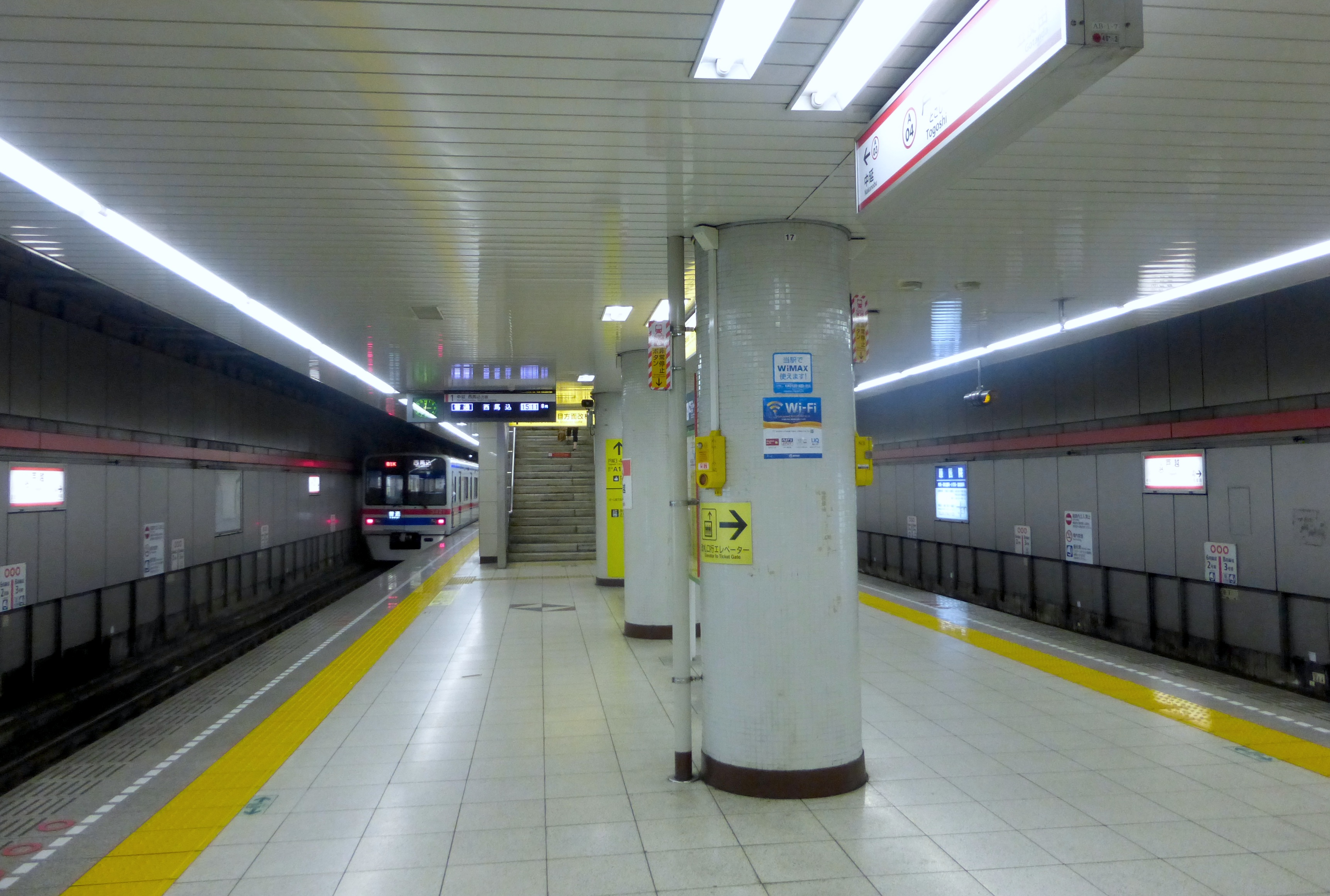 Togoshi Station platform (戸越のホーム)